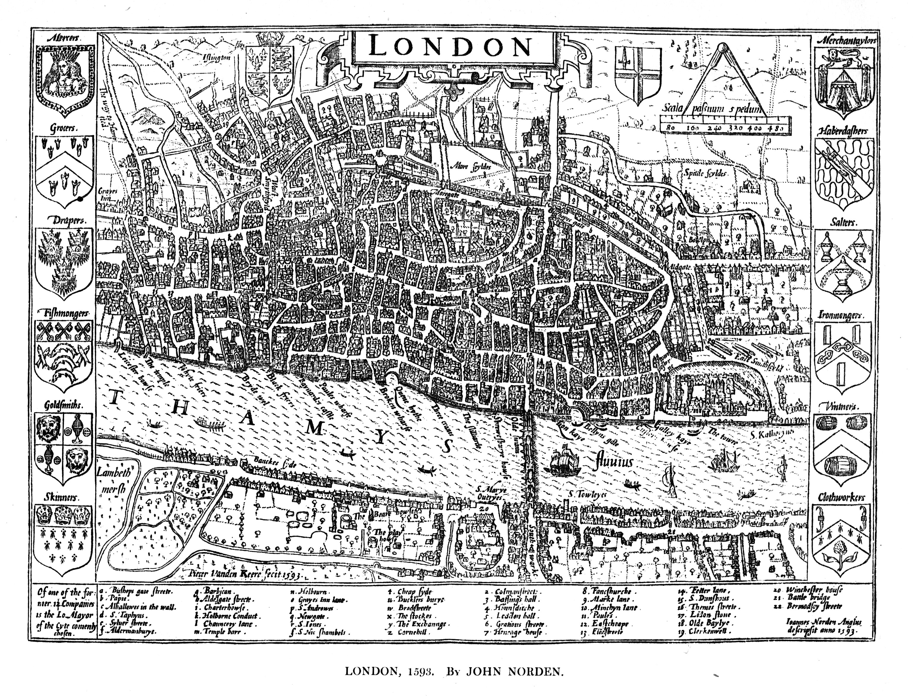 John Norden's Map of London, 1593, engraved by Pieter Van den Keere. Original size 9.5 x 6.75 inches, published in Norden's "Middlesex", dated 1593. Norden was born c. 1548, and was made Surveyor of His Majesty's Woods in 1609.